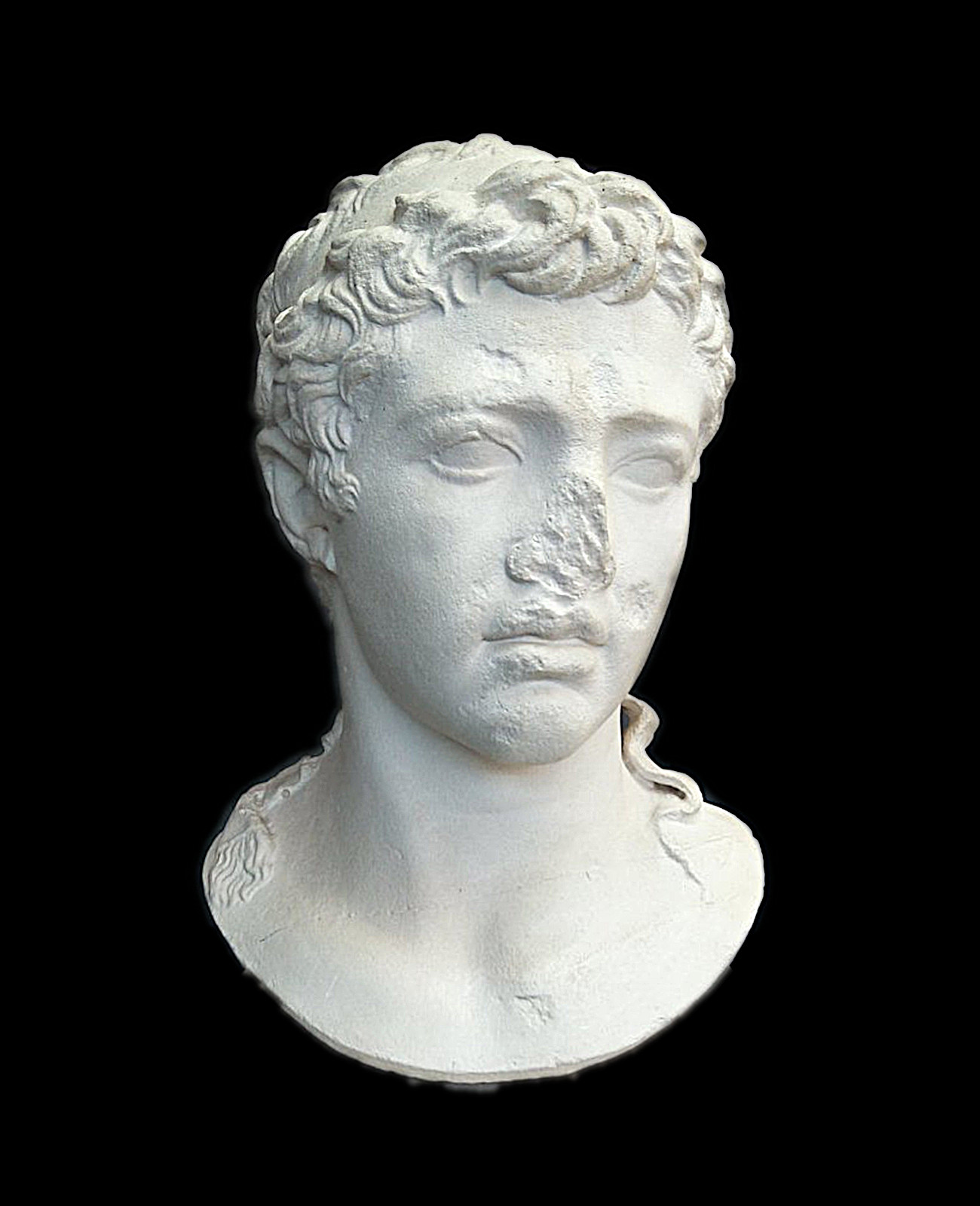 An ancient Roman bust of Juba II of Mauretania, from Archeological Museum of Cherchell, Algeria.